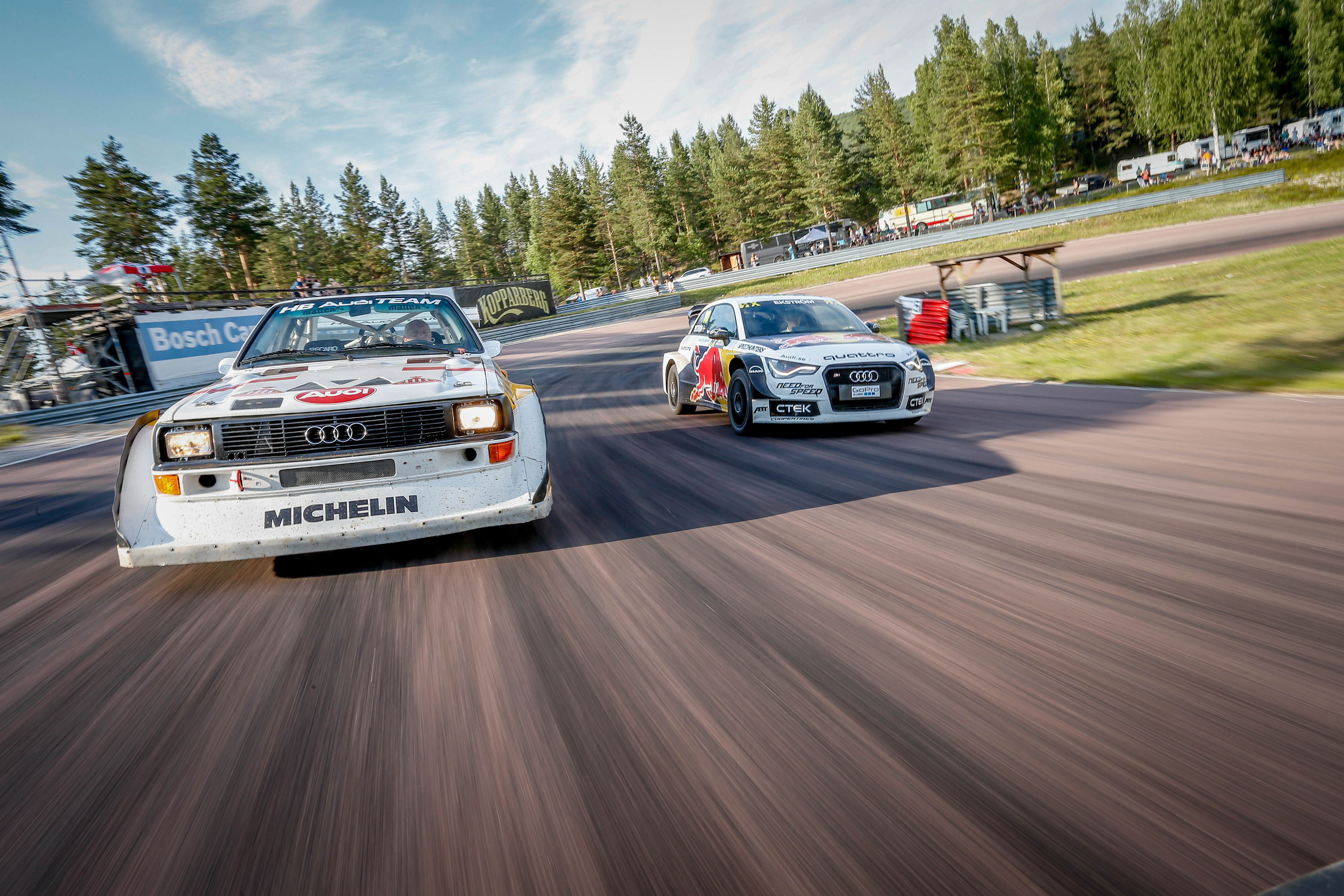 2015 FIA World Rallycross Championship / Round 06, Höljes, Sweden // 3-5 July 2015 // Worldwide Copyright: Colin McMaster/EKS/McKlein